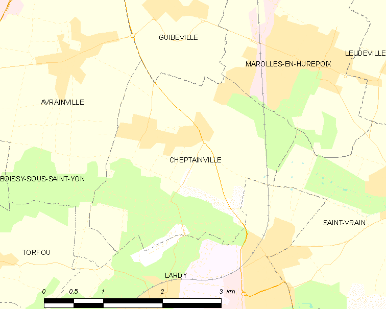 Map of French municipality Cheptainville